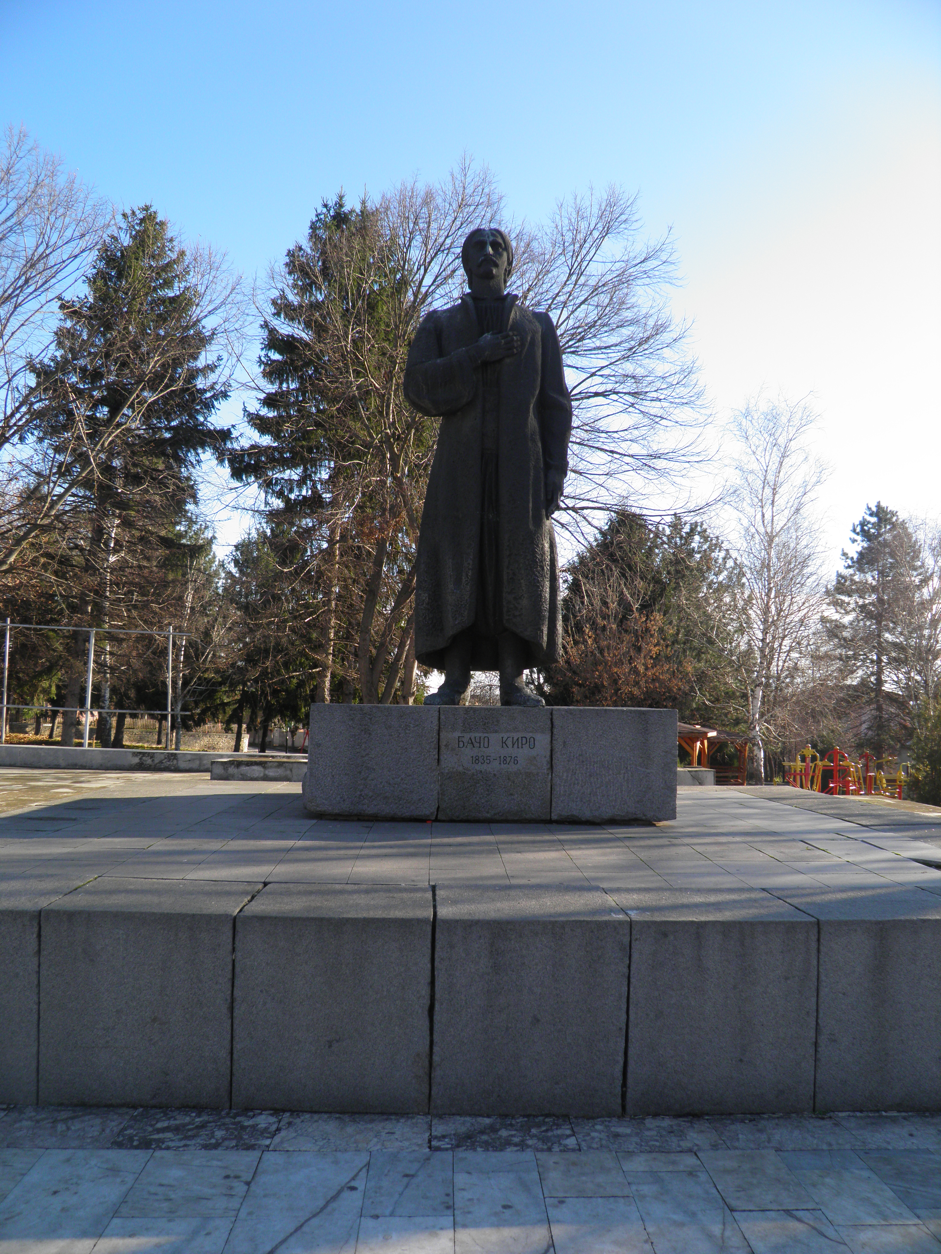 Паметник на Бачо Киро